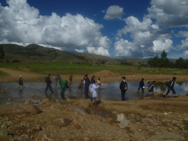 Niños cruzando el Río Sacabamba